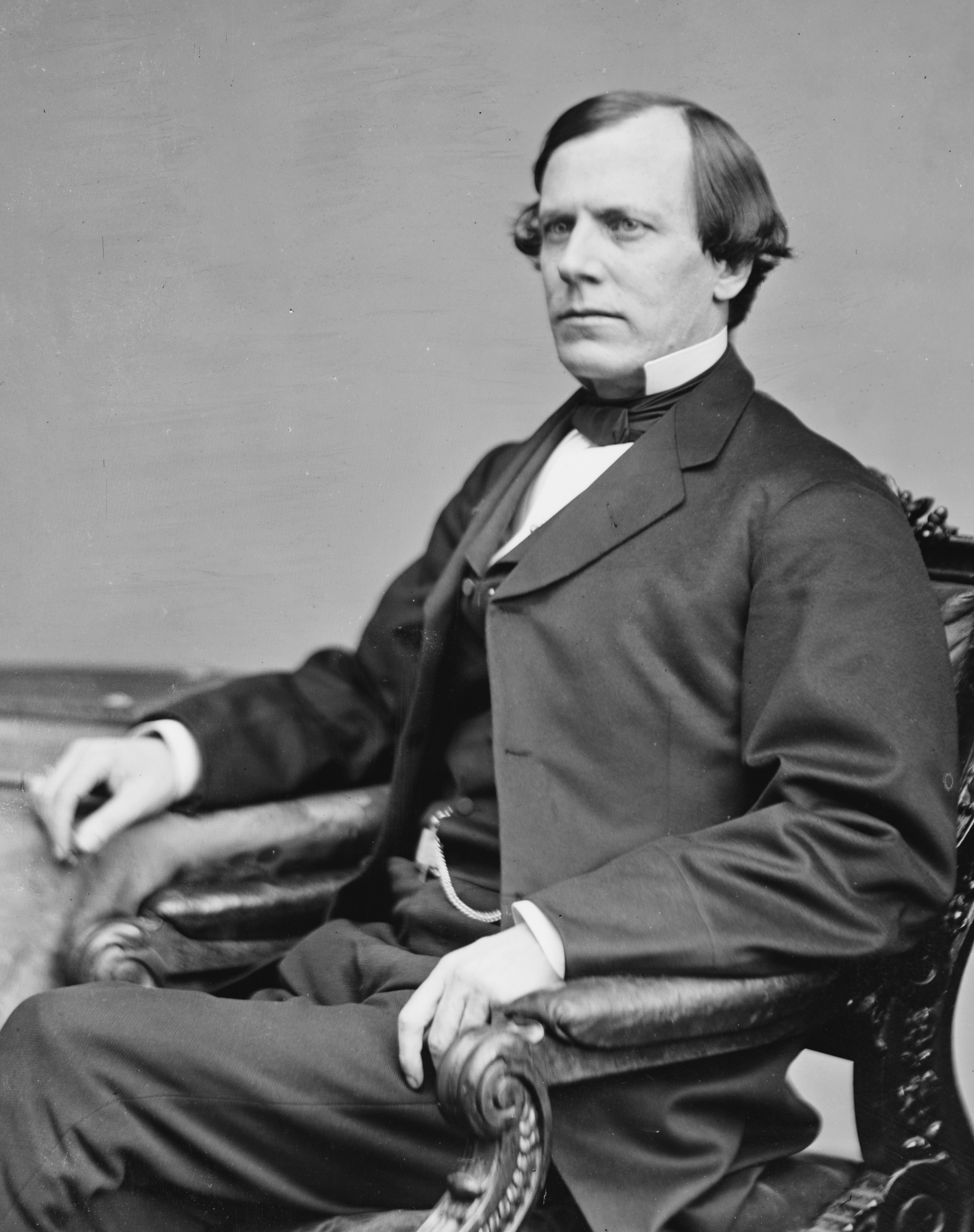 Hon. Starkweather, M.C.